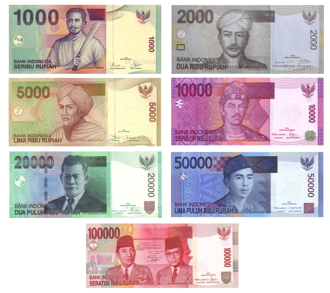 The Indonesian Rupiah (IDR) banknotes denominations in circulation in 2009